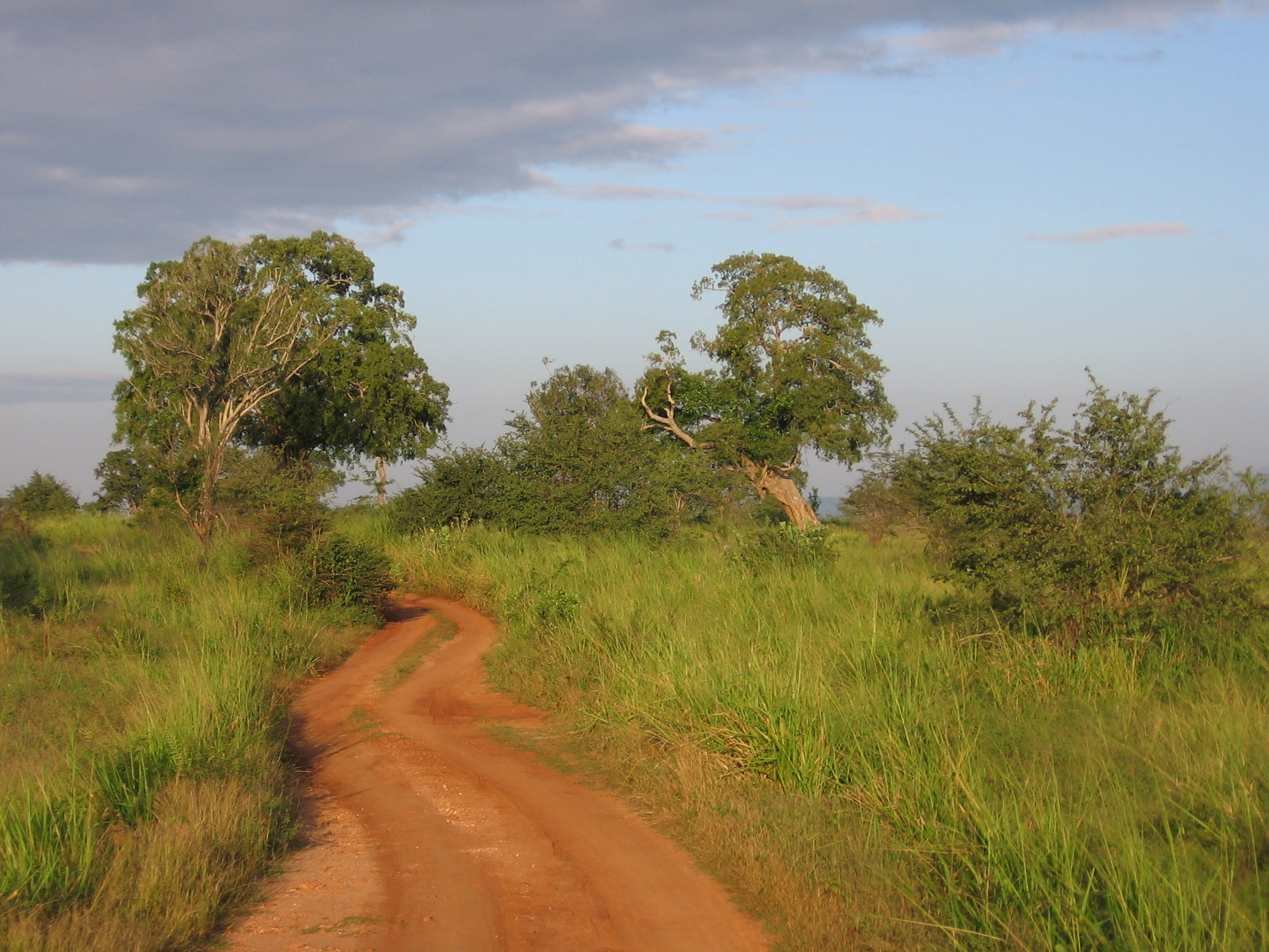 Safari track in Uda Walawe National Park, Sri Lanka. The geolocation below isn't exact; my sense of direction isn't that good!